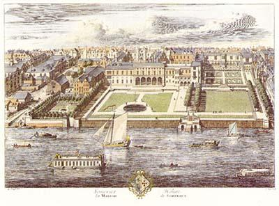 Old Somerset House, shown here in a drawing by Jan Kip published in 1722, was a spawling and irregular complex with wings from different periods in a mixture of styles. The buildings behind all four square gardens are part of Somerset House. The barn like structure on the left is a stable block with stalls for 56 horses. Category:Images of London